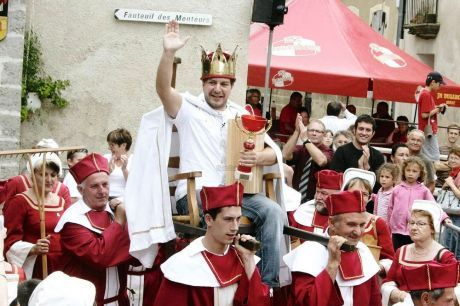 menteur_moncrabeau